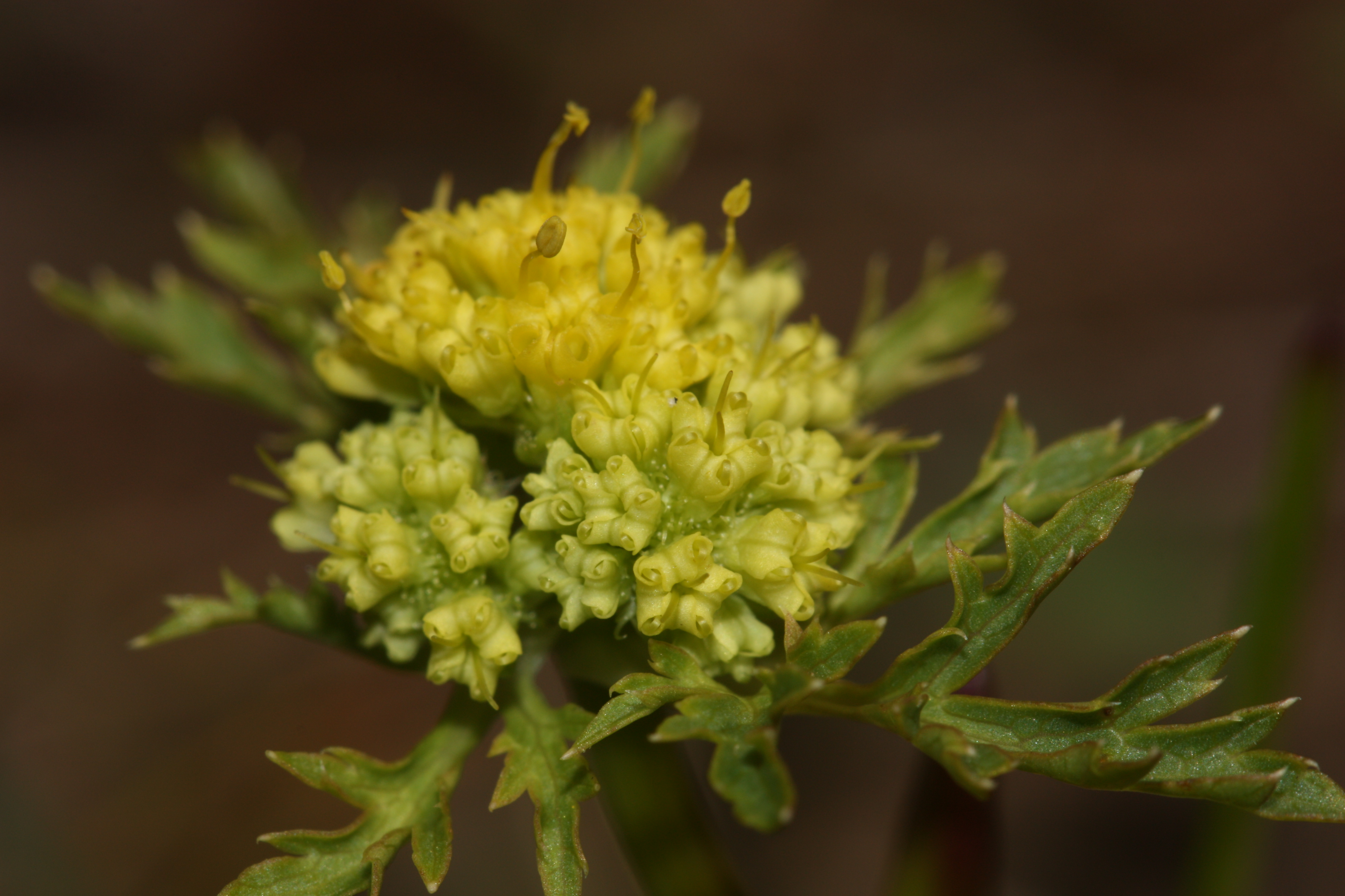 Northern Sanicle, Sierran Black-snakeroot Viewpoint location: Catherine Creek Trail (north of road), Catherine Creek Day Use Area Viewpoint elevation: 134 meter (439 ft) Location source: Garmin GPSmap 60CSx Location Datum: WGS84